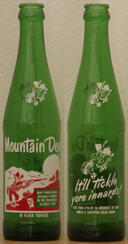 Old 10 oz. bottle of Mountain Dew (1960s ???)